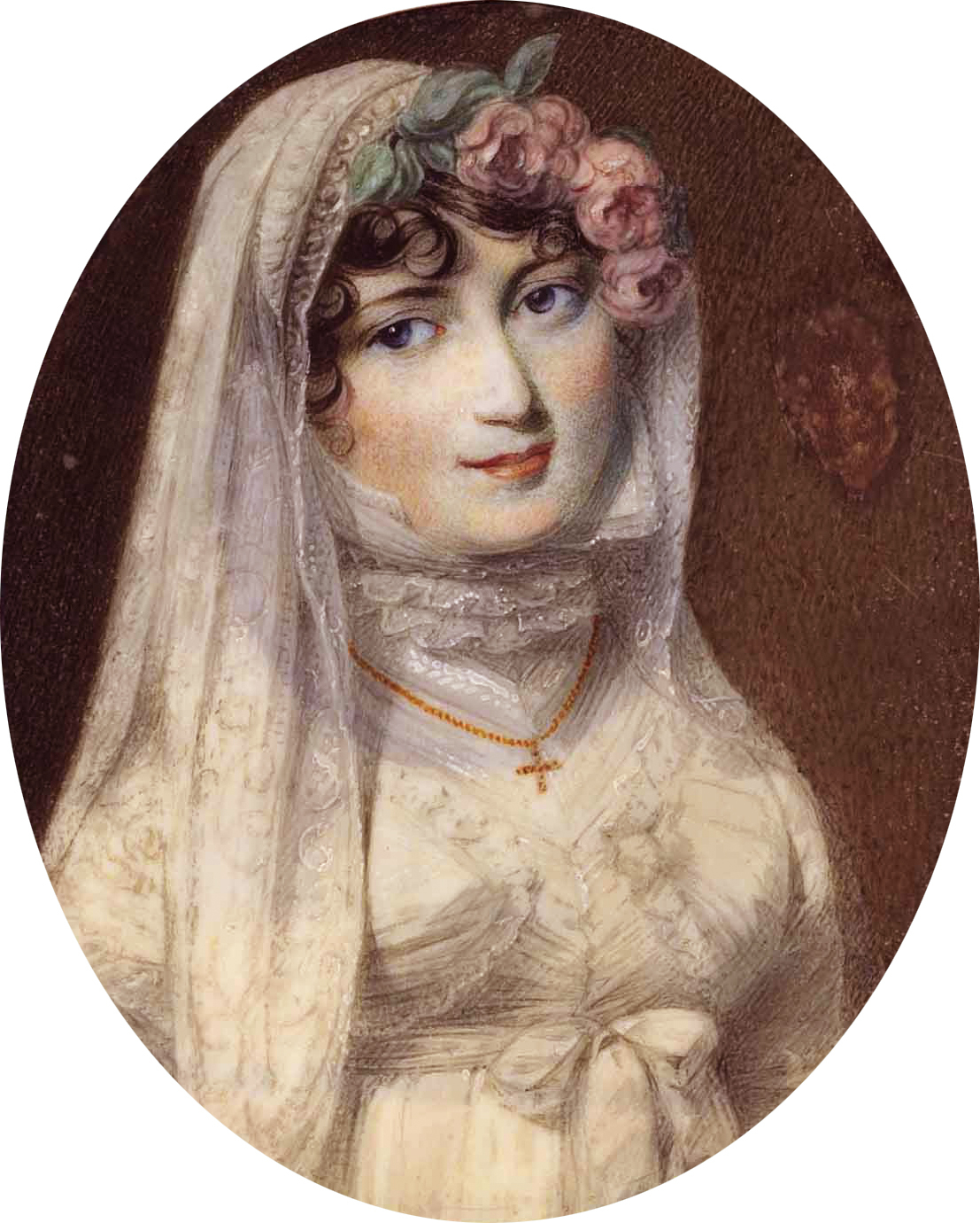 Mrs William Hayley, née Mary Welford on ivory 7.6 cm